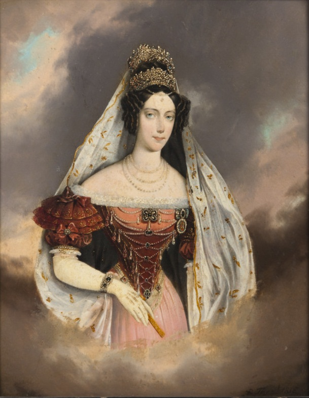 Maria Anna of Savoy (1803-1884), empress of Austria, queen of Hungary and Bohemia, wife of Ferdinand I of Austria (i.e of King Ferdinand V of Hungary).